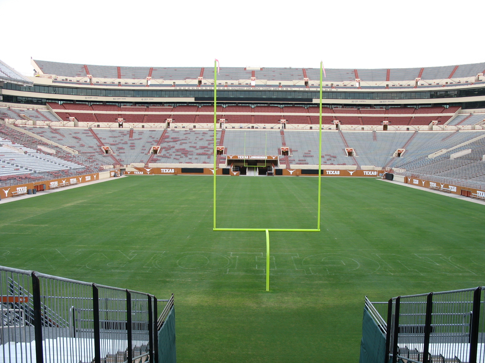 The new North End zone at Darrell K Royal Texas Memorial Stadium